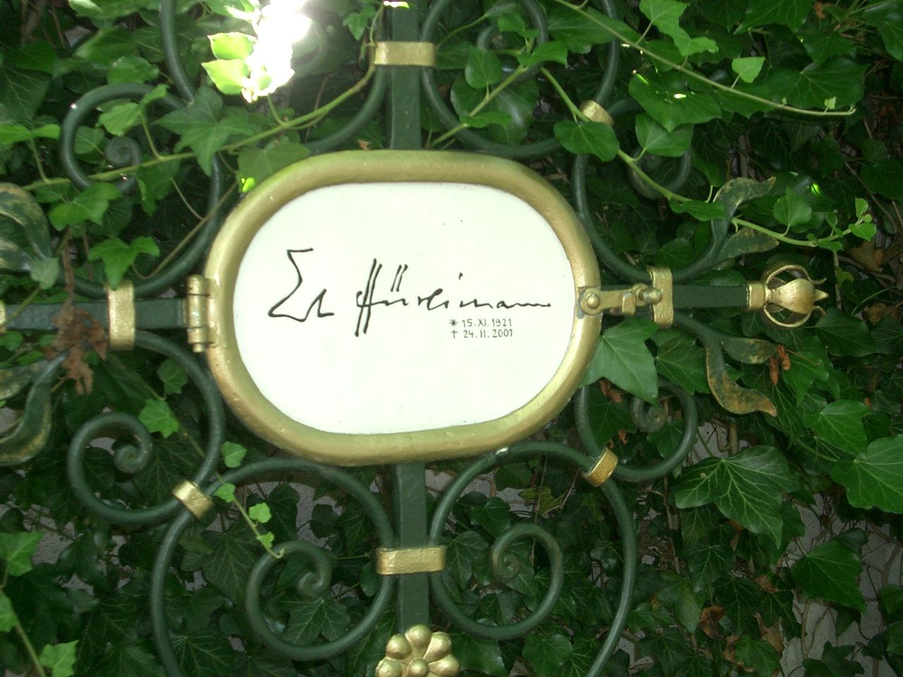 Grave at the churchyard in Bogenhausen of the german caricaturist Ernst Hürlimann